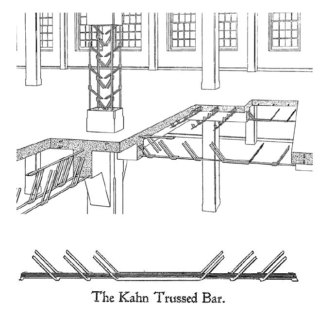 Kahn Trussed Bar as in a 1904 catalogue by Trussed Concrete Steel Company